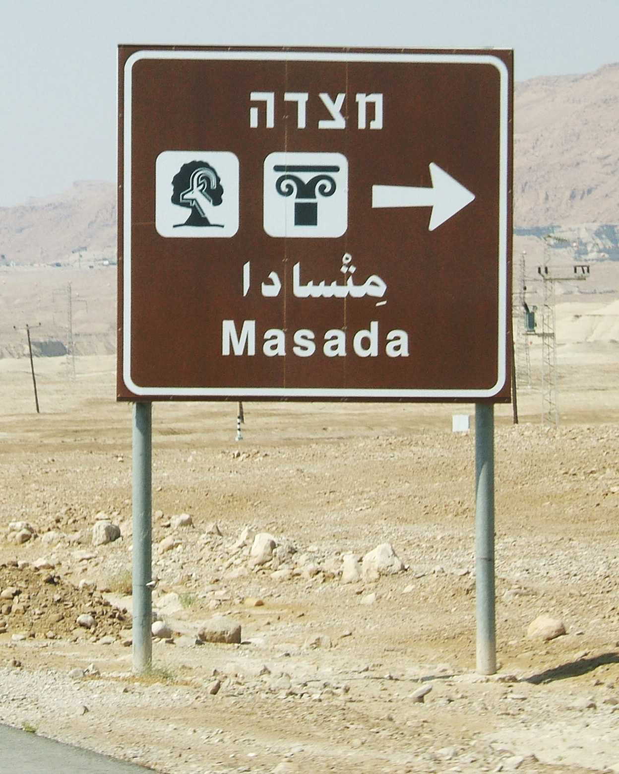 Highway sign pointing to entrance of Masada. Photo taken by Bantosh (myself).